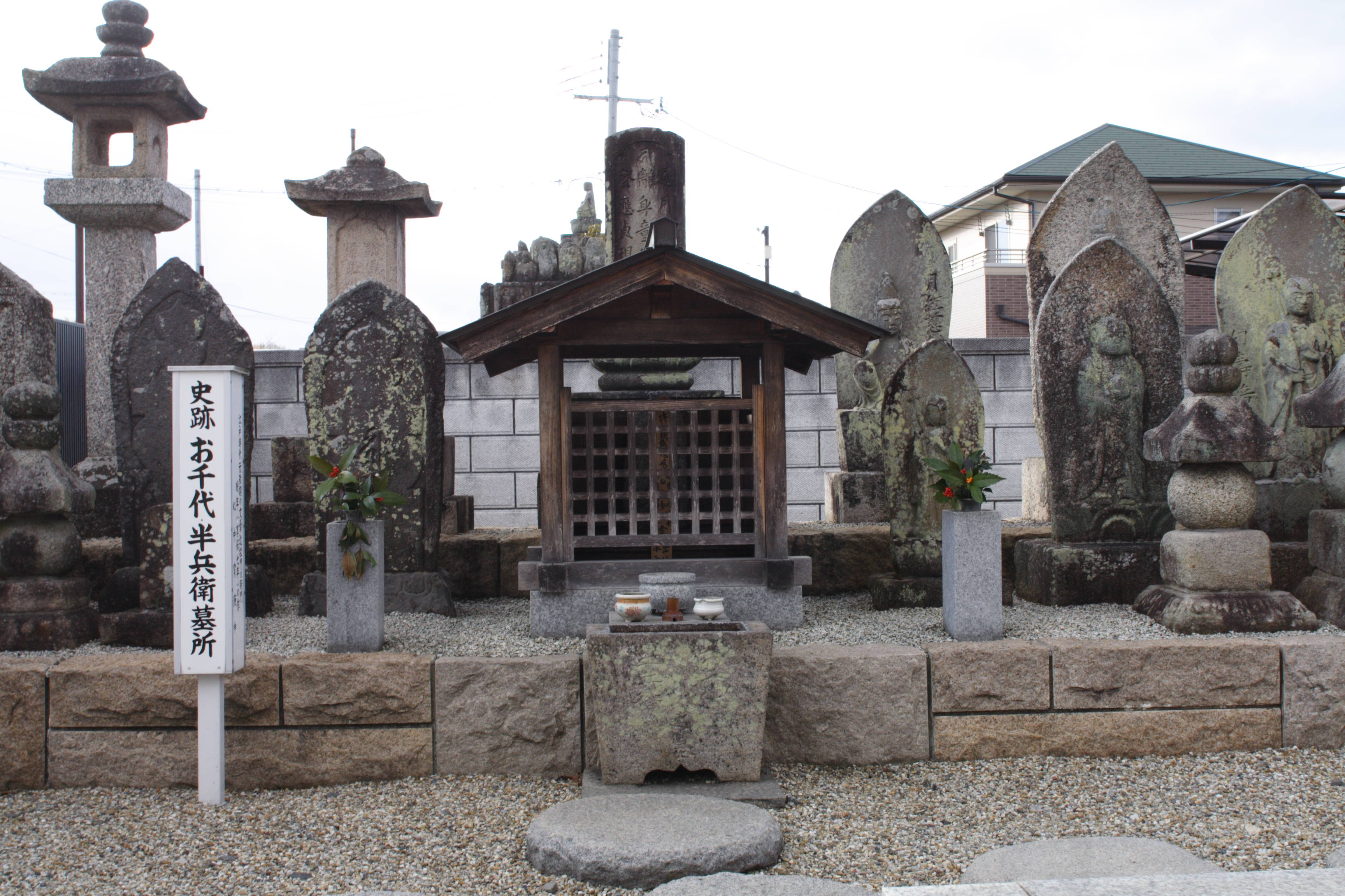 お千代・半兵衛の墓/a tomb of Ochiyo and Hanbē in "Shinjū Yoi Gōshin" by CHIKAMATSU Monzaemon/京都府 来迎寺/Raigōji temple Kyoto, Japan